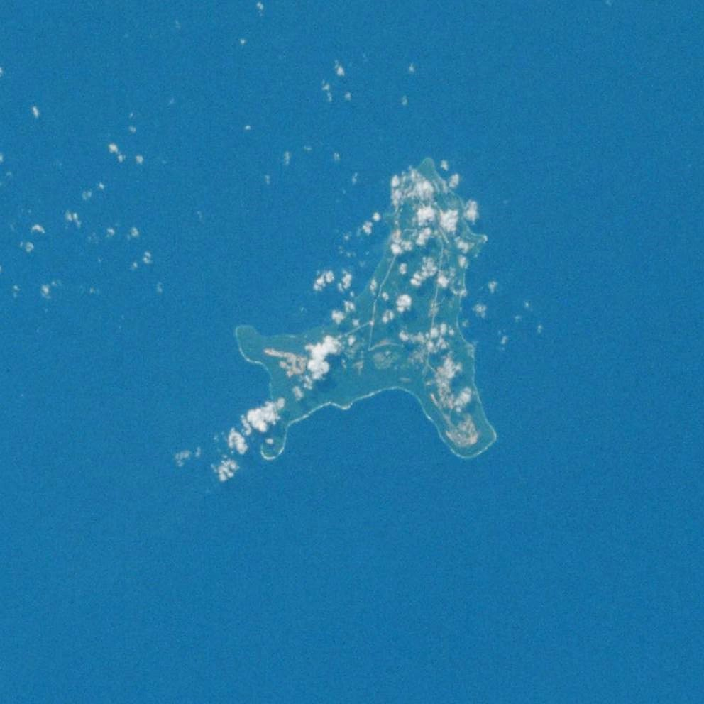 Christmas Island as seen during the STS-7 mission